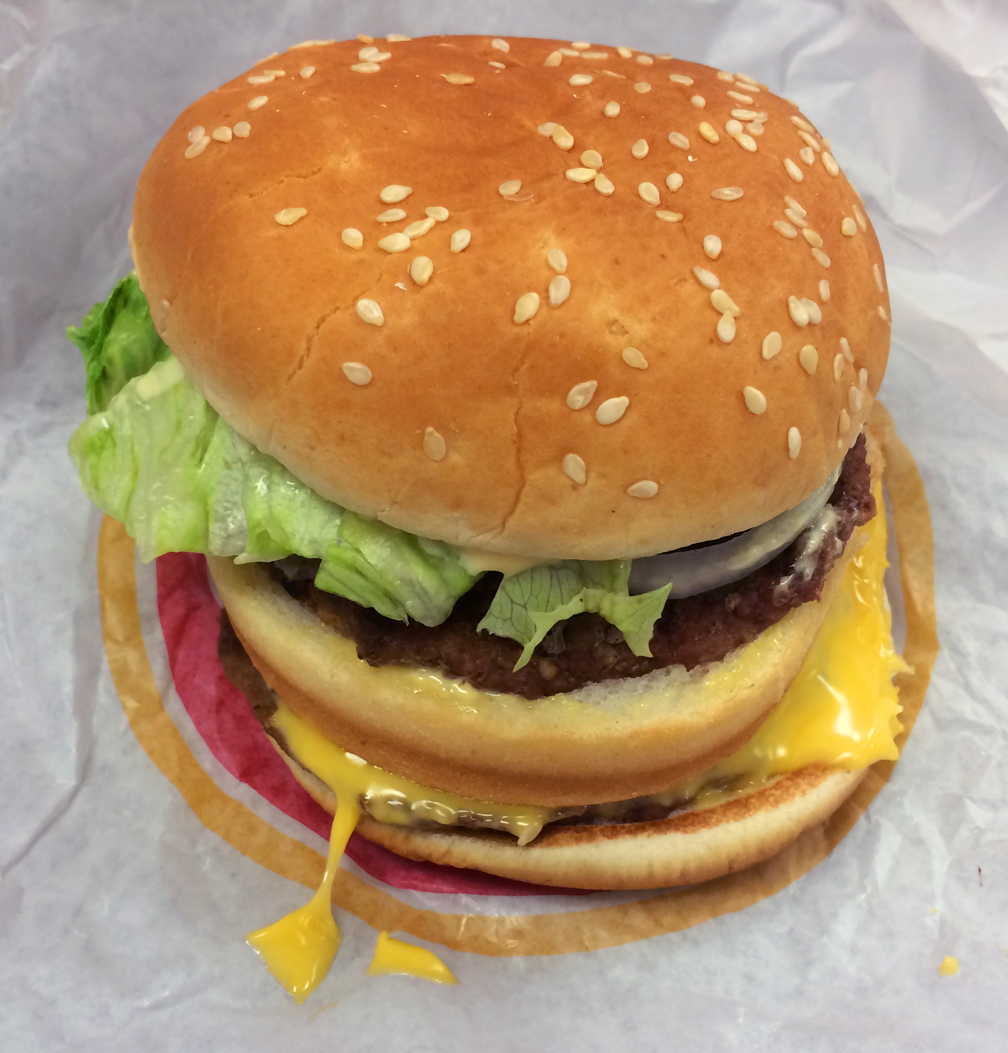 A Burger King Big King sandwich. (Version with cropping and colour balance correction; slight green cast not suited to subject. Also plus minor contrast and saturation adjustments.)